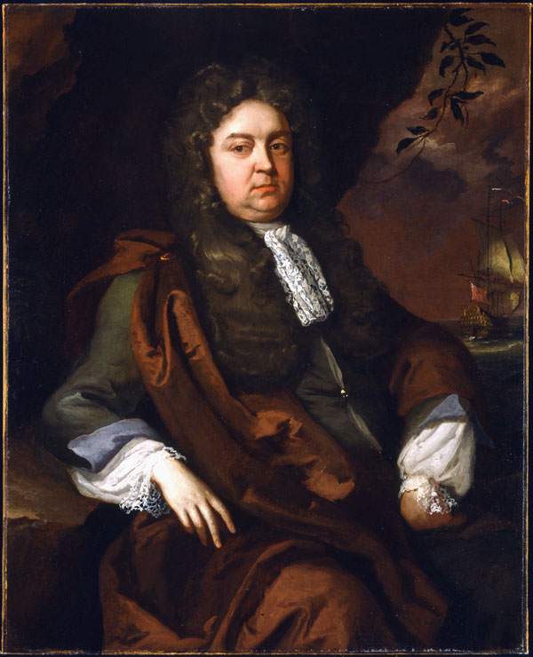 Portrait of Sir John Berry (1635-1691), Commissioner of the Royal Navy, Governor of Deal Castle